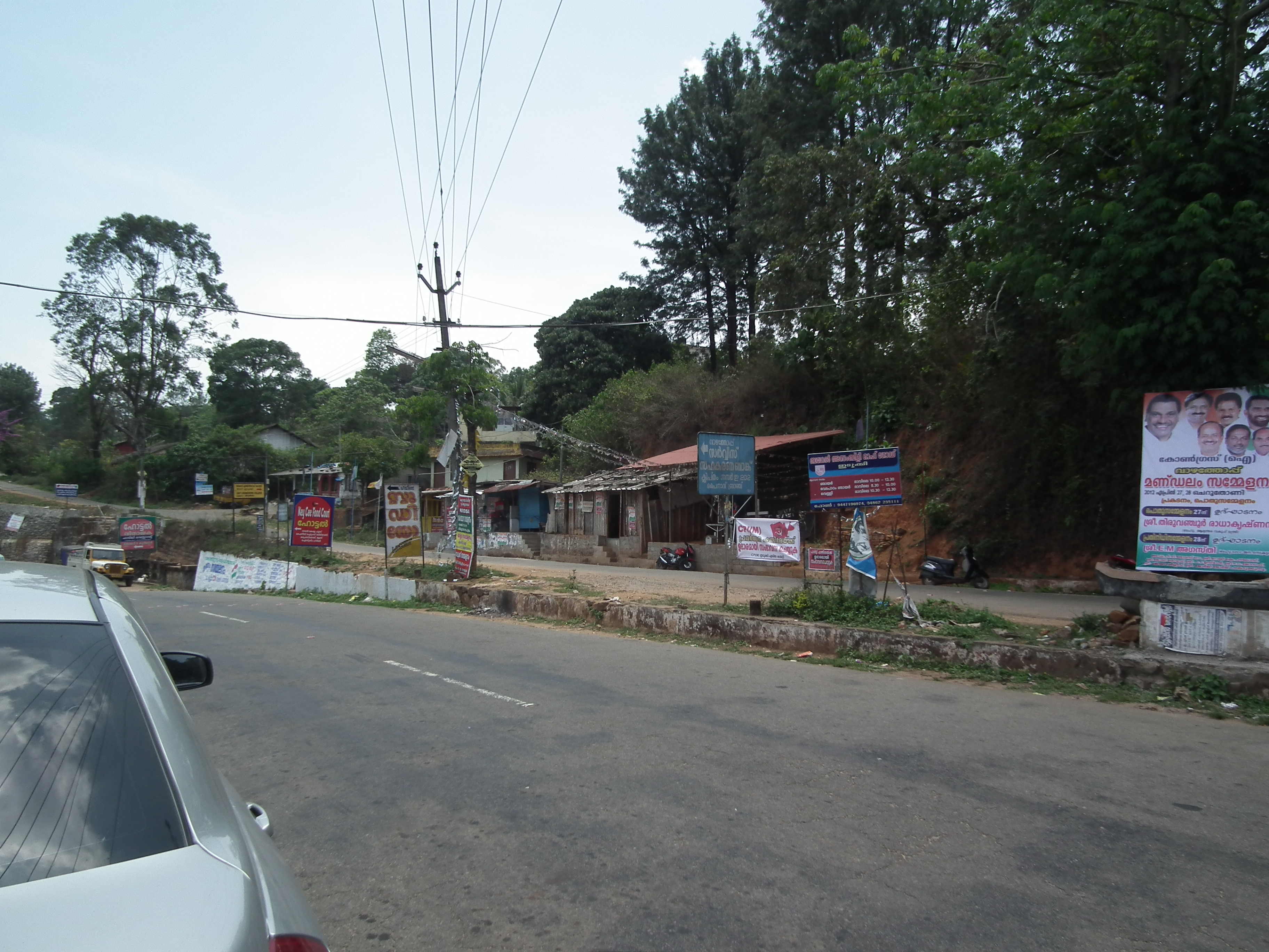 Snap from Painavu Junction, Idukki